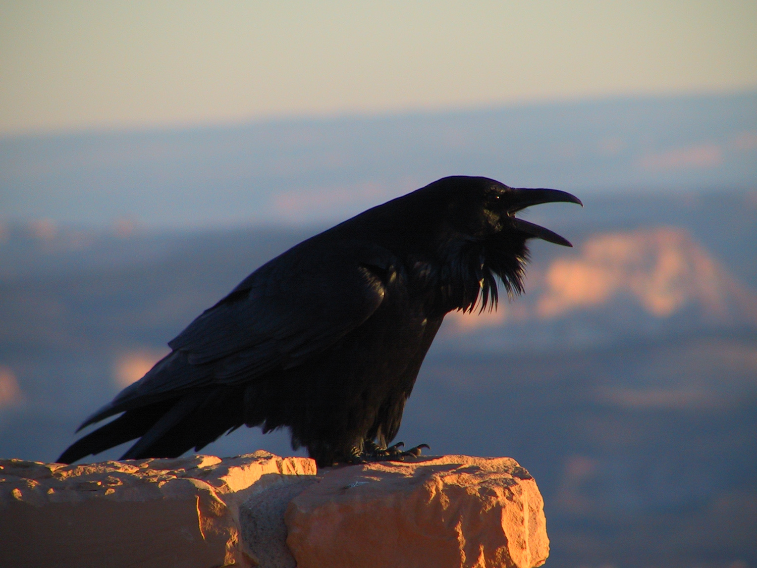 A Raven (Corvus corax) at Bryce Canyon National Park